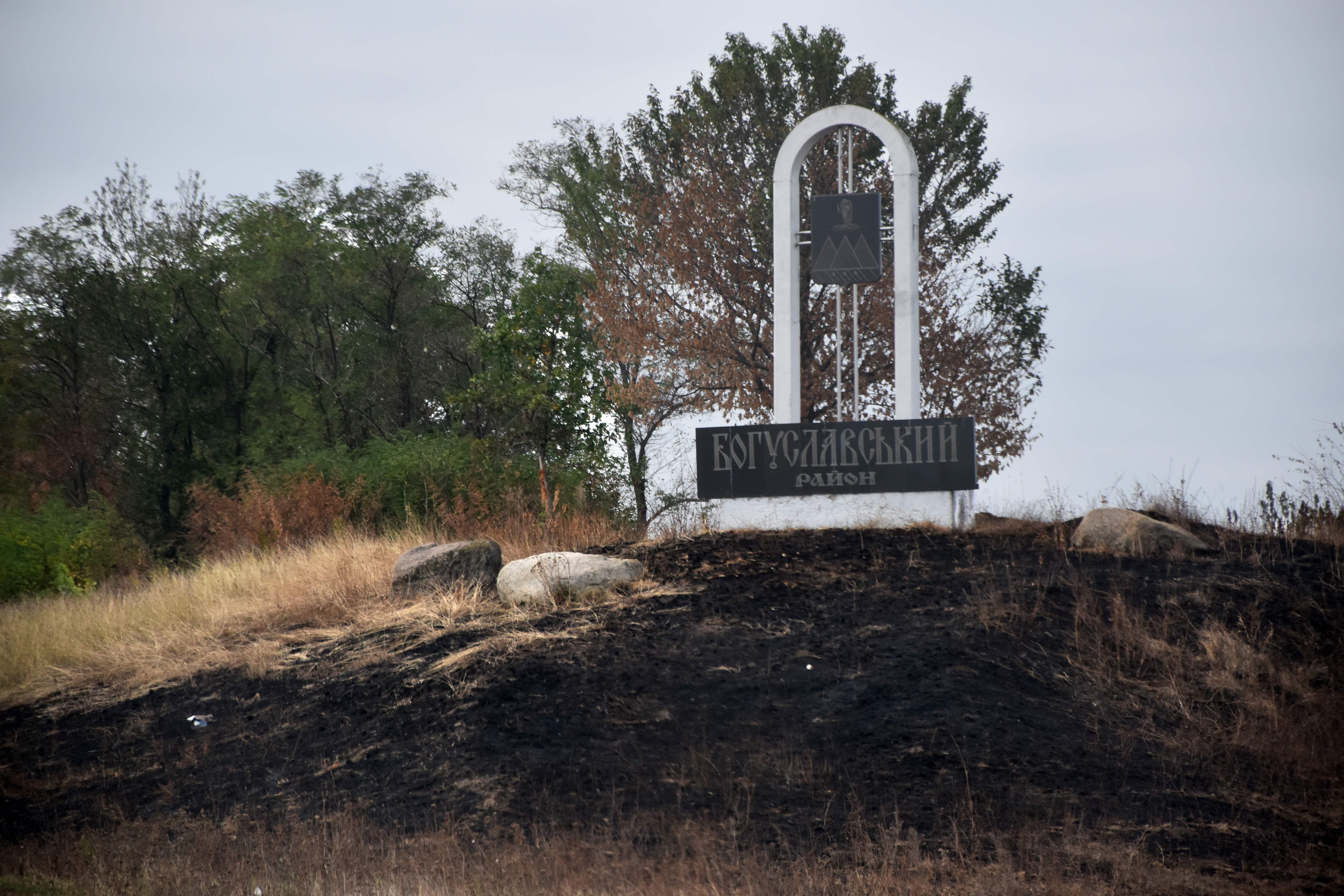 Bohuslav Raion sign near territorial road T1022, at section between villages of Vladislavka and Shupiki.